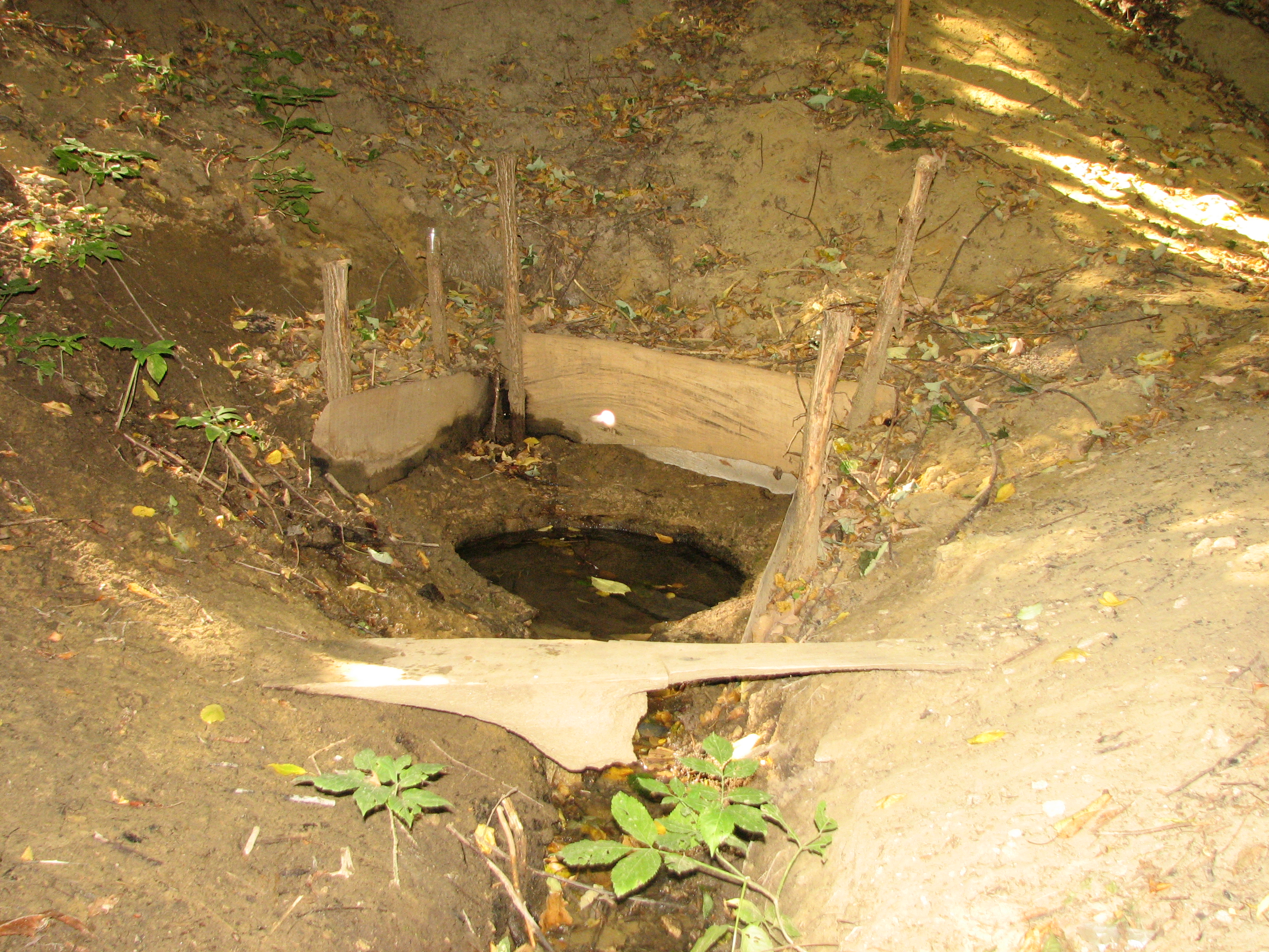 Джерело